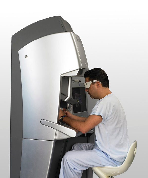 The Dextroscope. The users looks into the display and manipulates with both hands the 3D data that appears within reach.